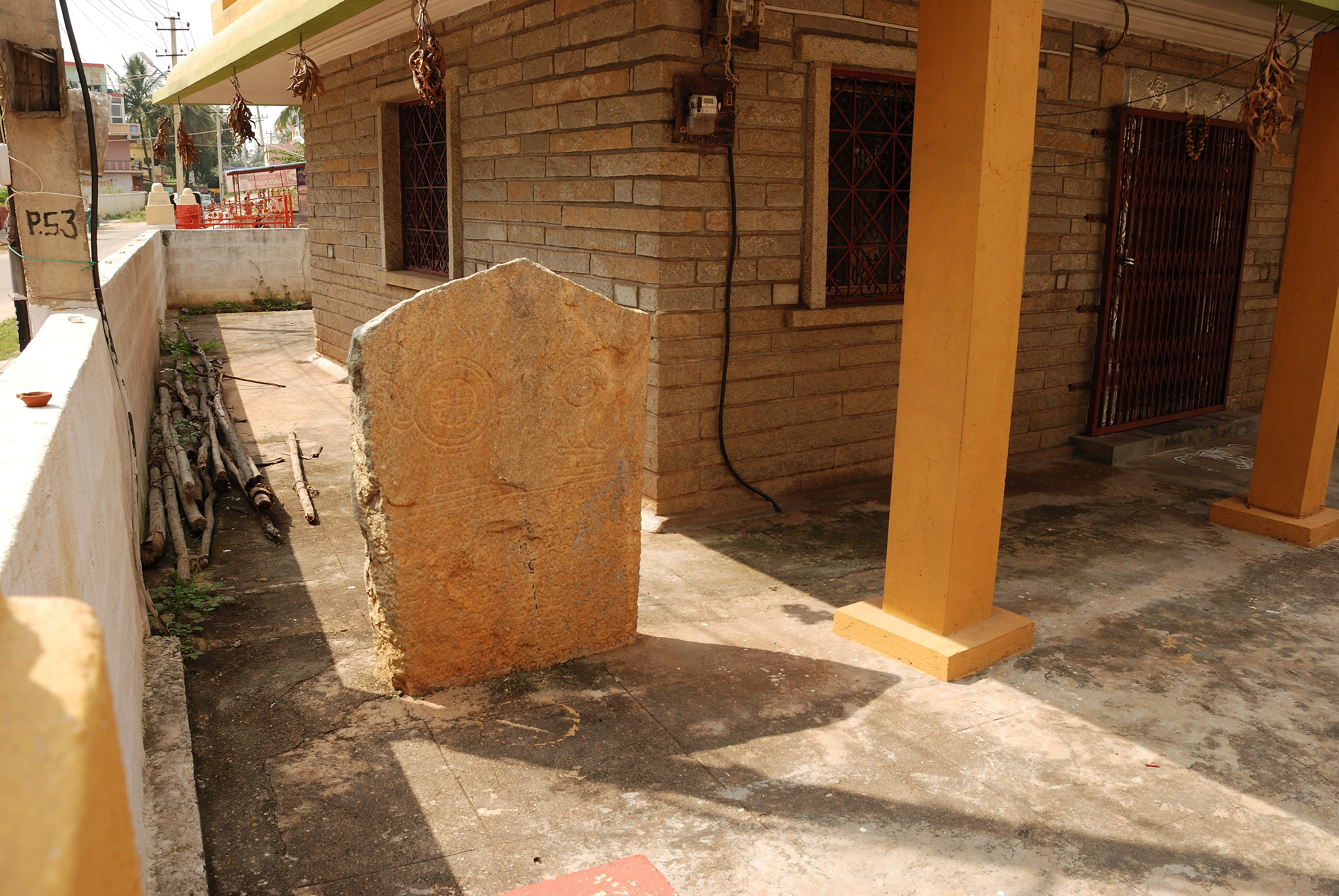 inscriptionstonesofbangalore